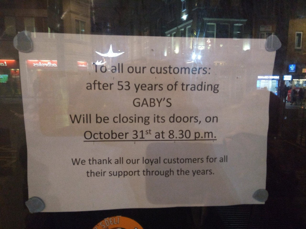 Closure notice from the main door on display in December 2018